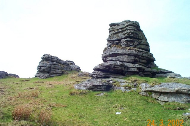 Great Links Tor - Dartmoor. Great Links Tor is one of the most impressive tors of Dartmoor. From its high vantage point of nearly 600m there are splendid views over Cornwall and large parts of Dartmoor. Great Links is made up of a number of barrel like piles of granite.